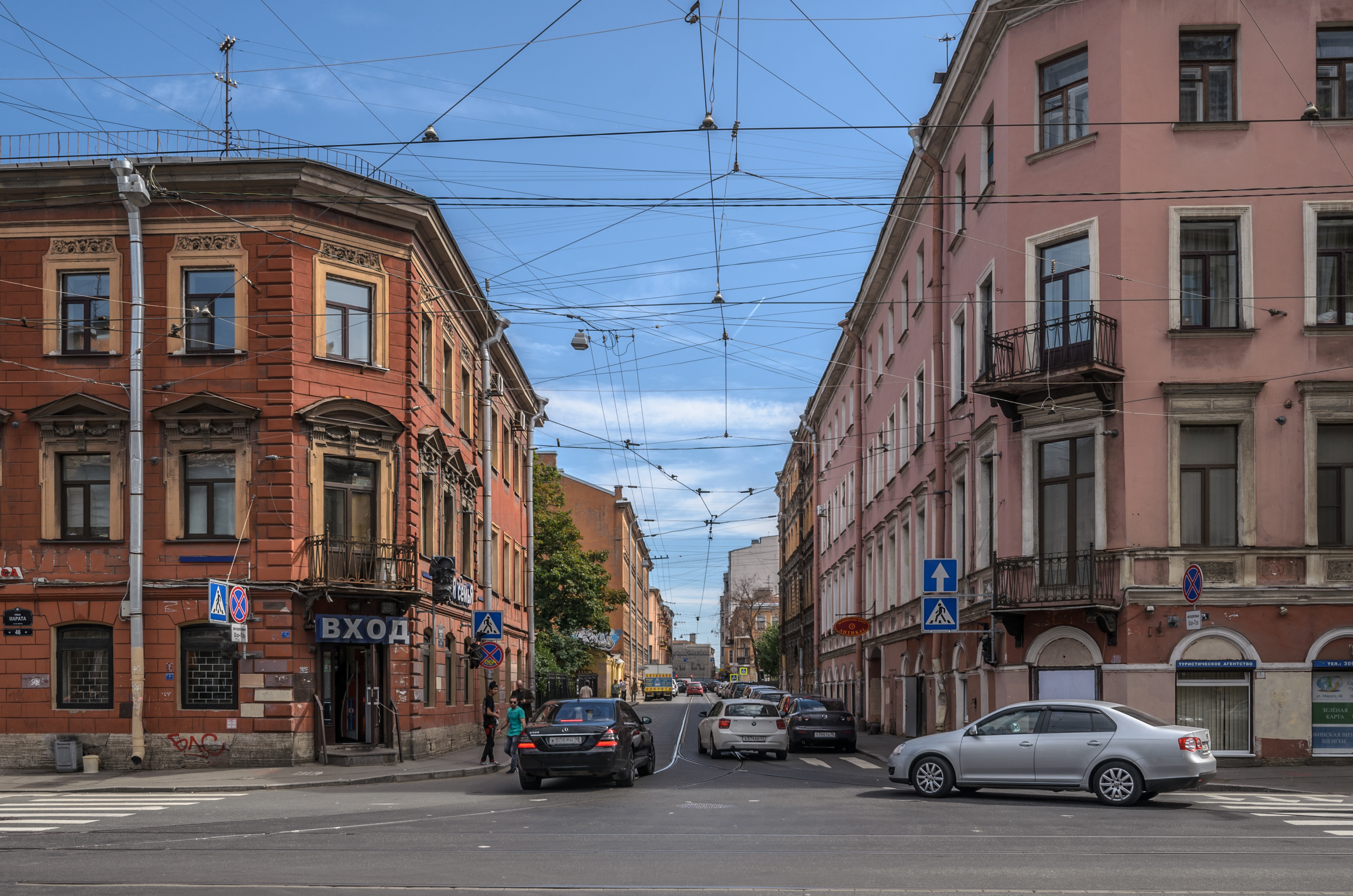 Svechnoy Lane in Saint Petersburg